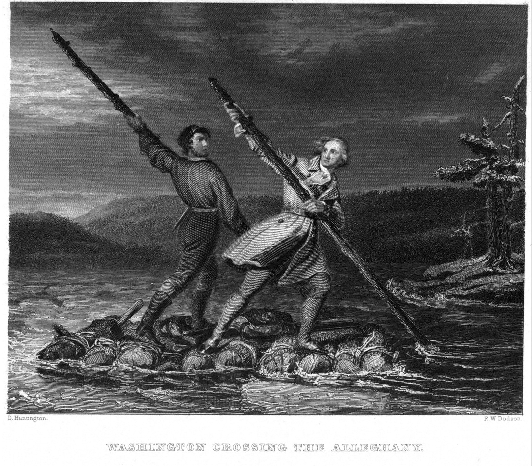 George Washington and Christopher Gist cross the Allegheny on a raft, after a painting by Daniel Huntington